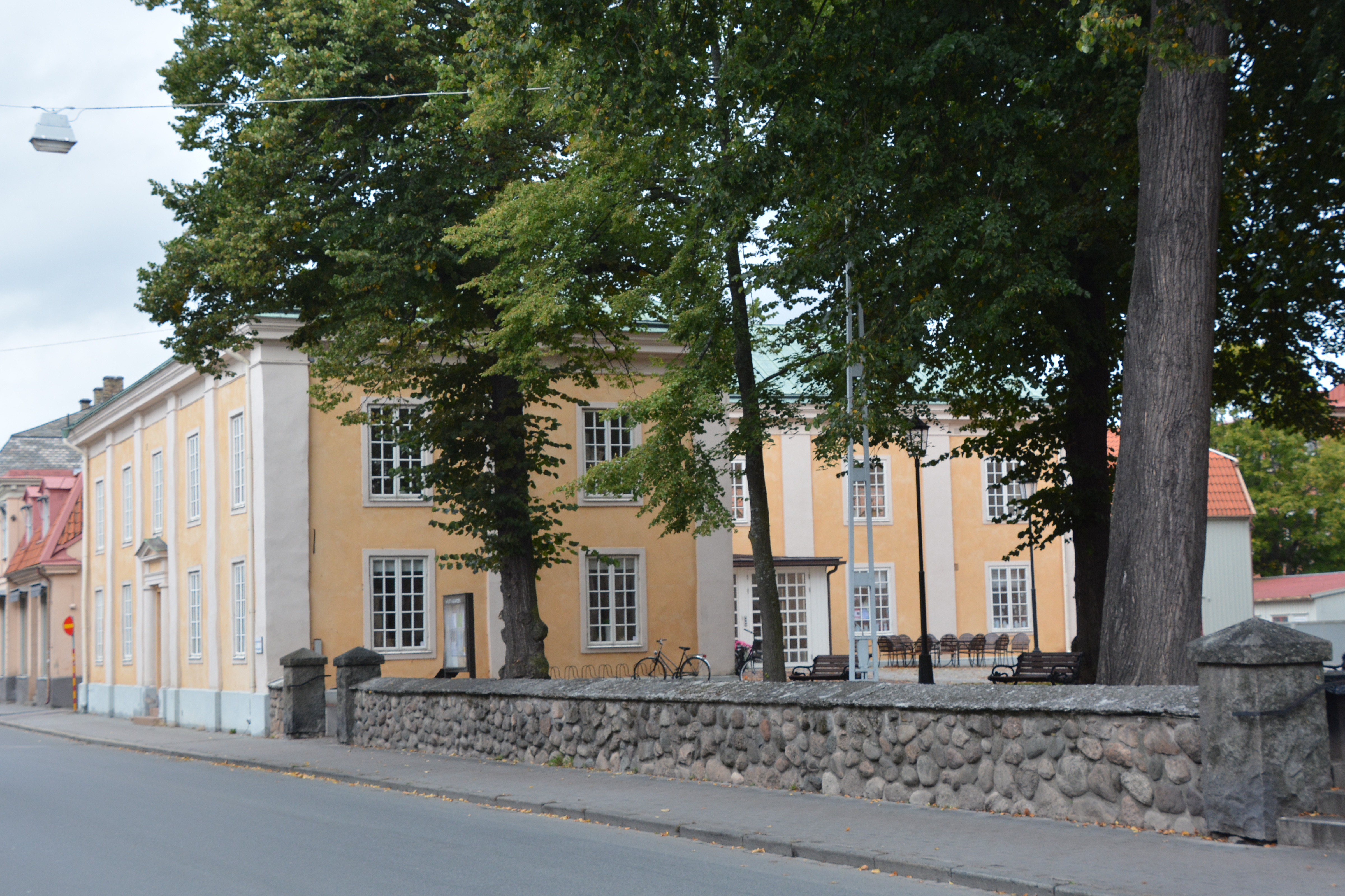 Trivialskolan i Jönköping, Östra Storgatan